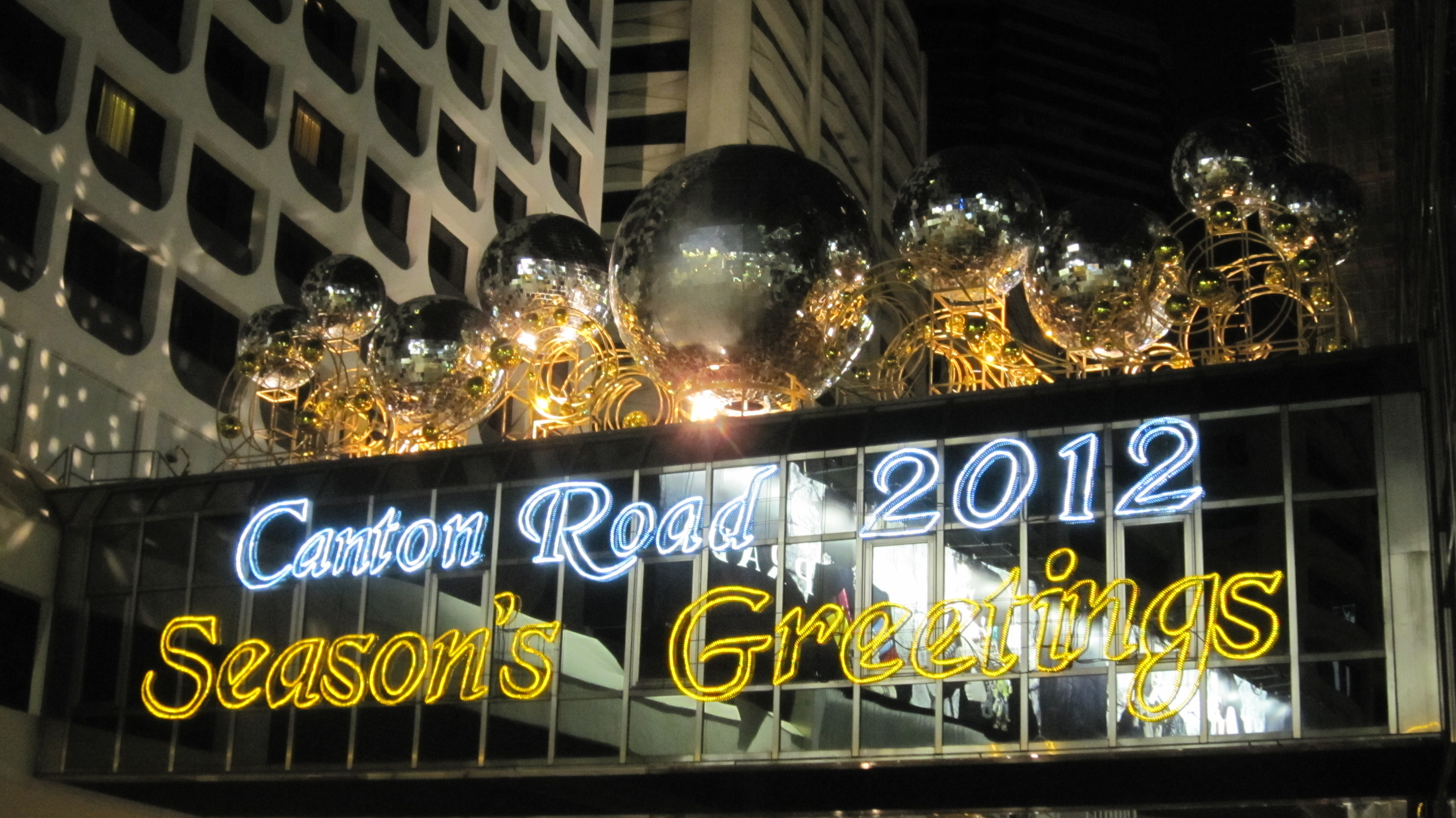 Canton Road at 2011-12-29